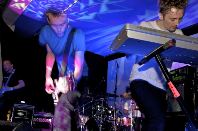 65daysofstatic at the Supersonic Festival, 26 July 2009